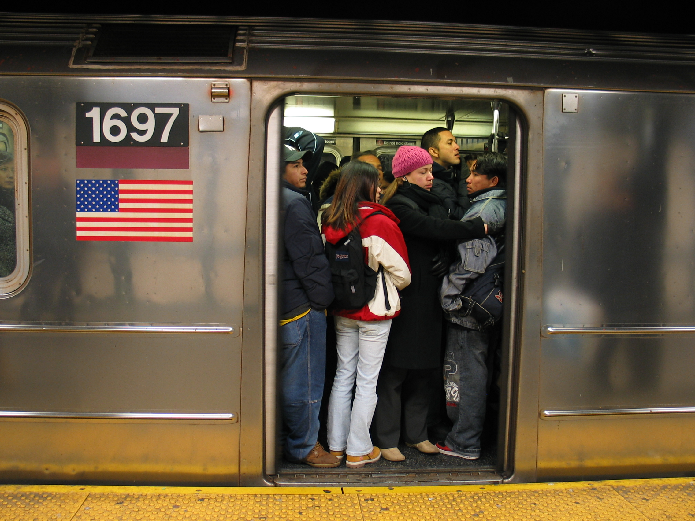 Crowded subway car of 7 train Queens bound late evening at 74th Street station.